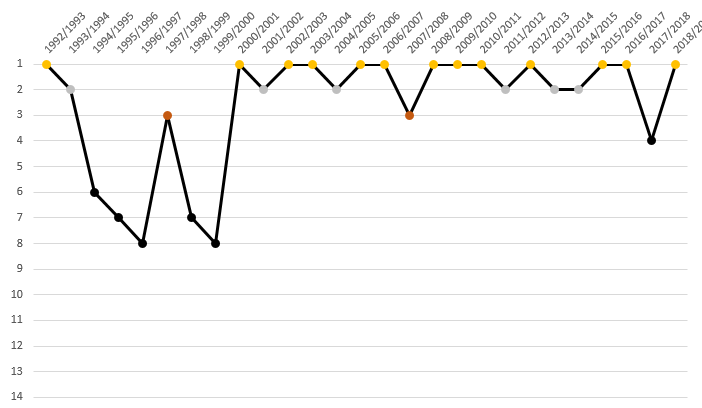 FC Copenhagens league position through the times.